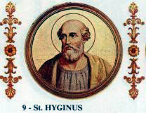 Portraits of Pope Hyginus in the Basilica of Saint Paul Outside the Walls, Rome